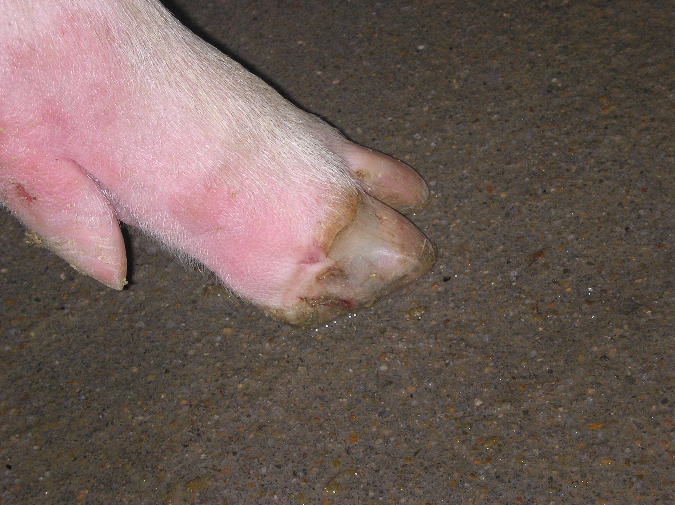 a pig with cracked hooves